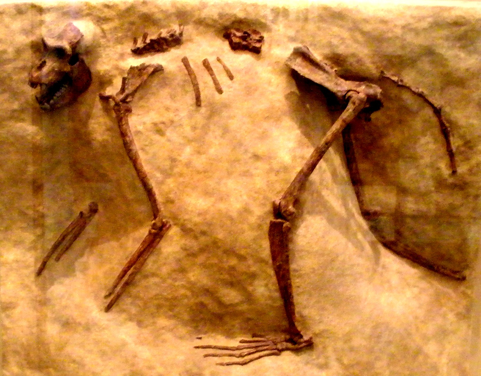 Skeleton of Paracolobus chemeroni, a fossil monkey